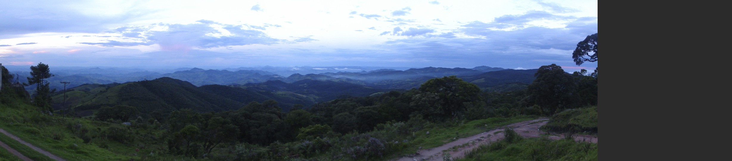 View from Pedra de São Domingos